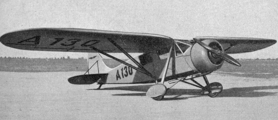 Hirtenberger HS 10 photo from Le Pontentiel Aérien Mondial 1936